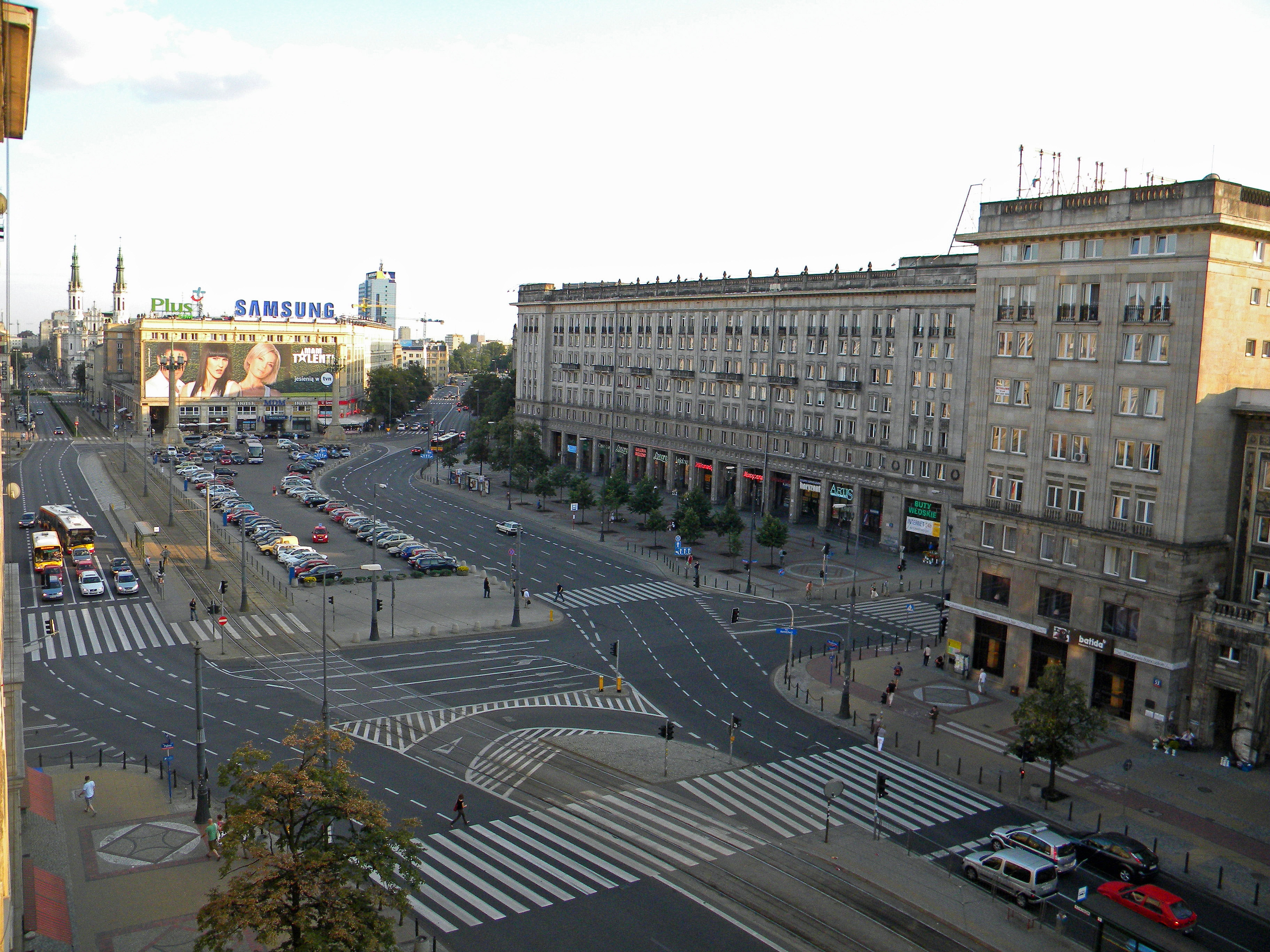 Panorama of the Constitution Sq in Warsaw